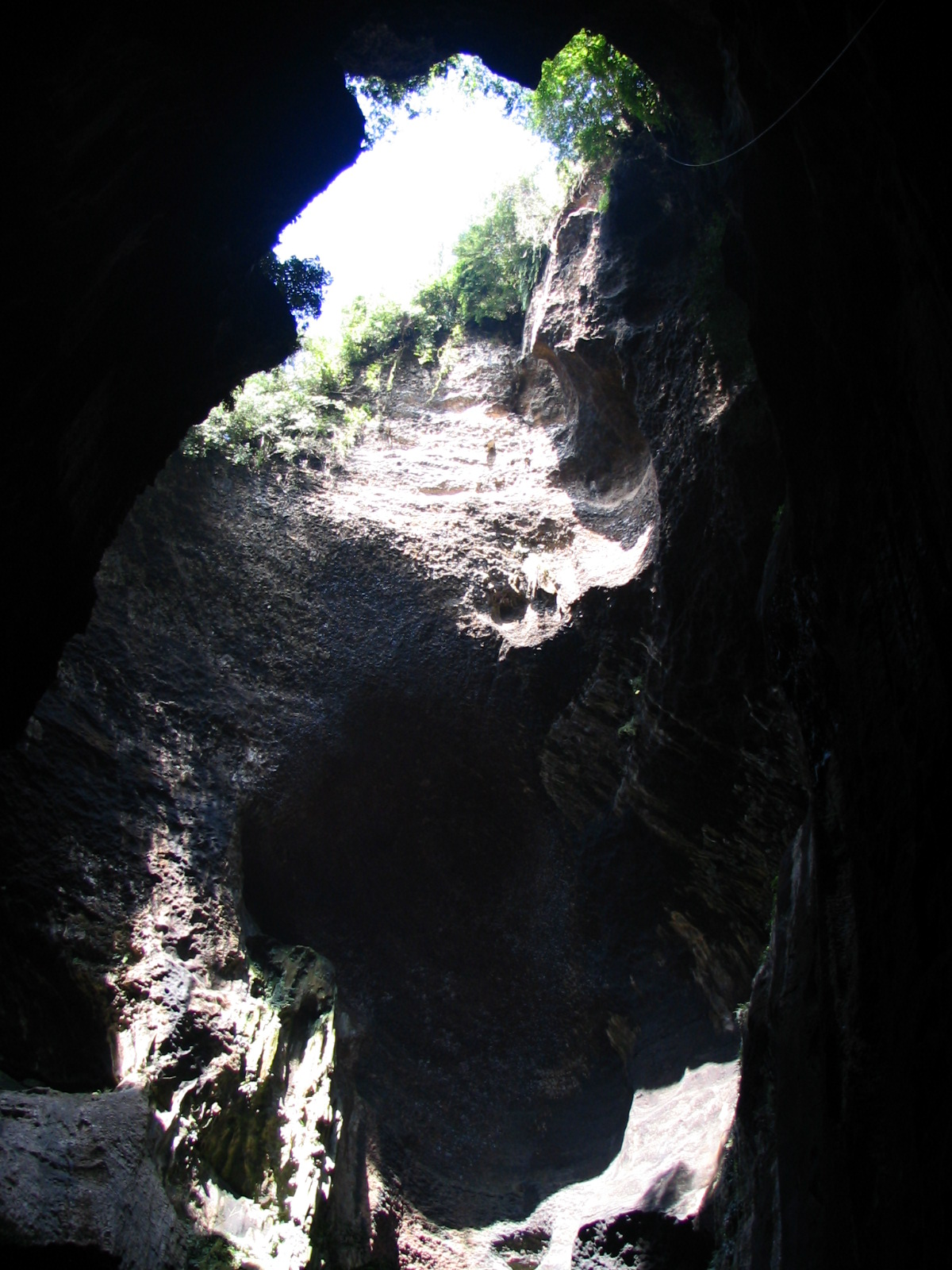 Gomantong cave, walls are covered with swallow nests, some black and some white.